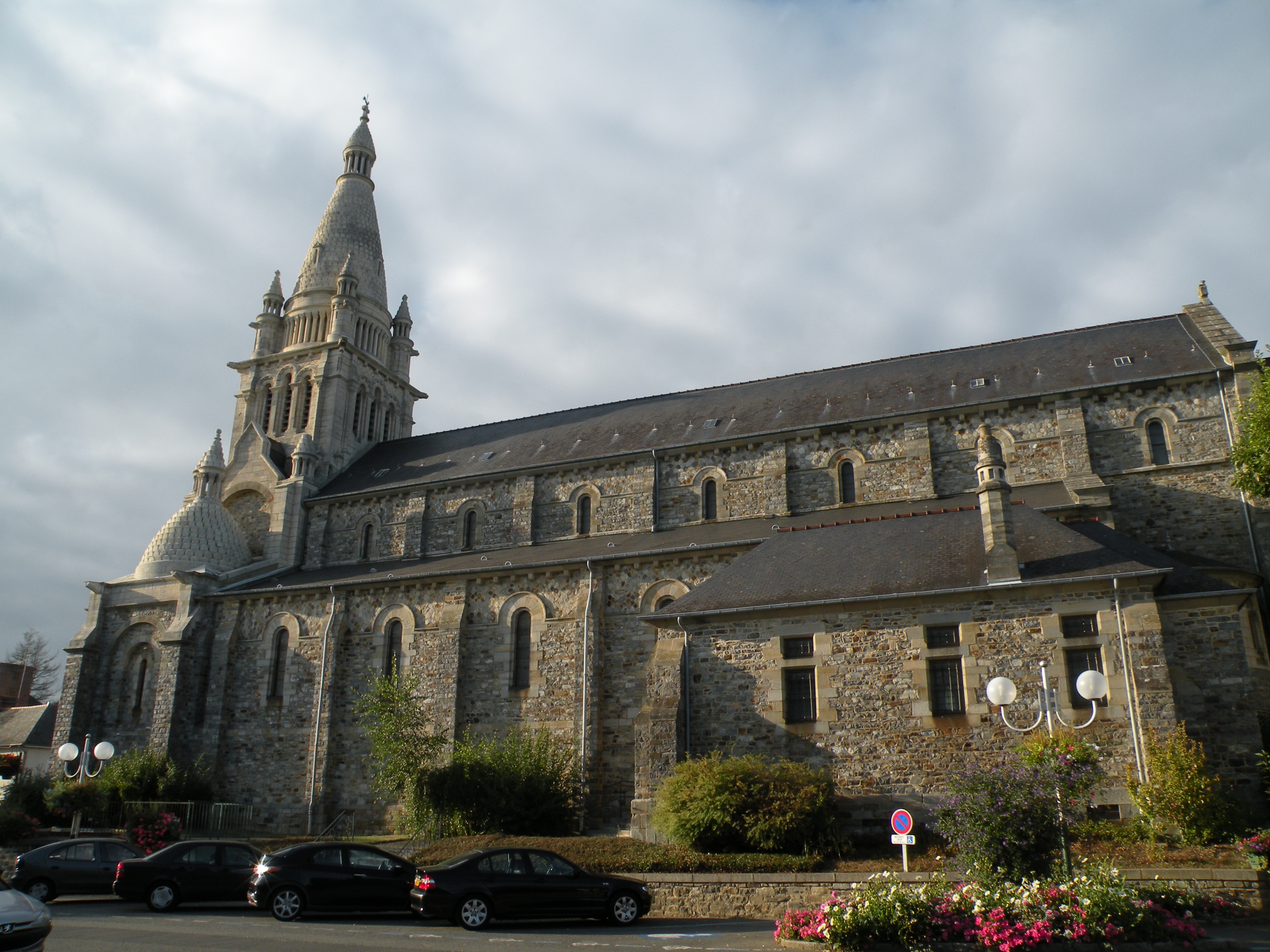 Nave of the church of Melesse.